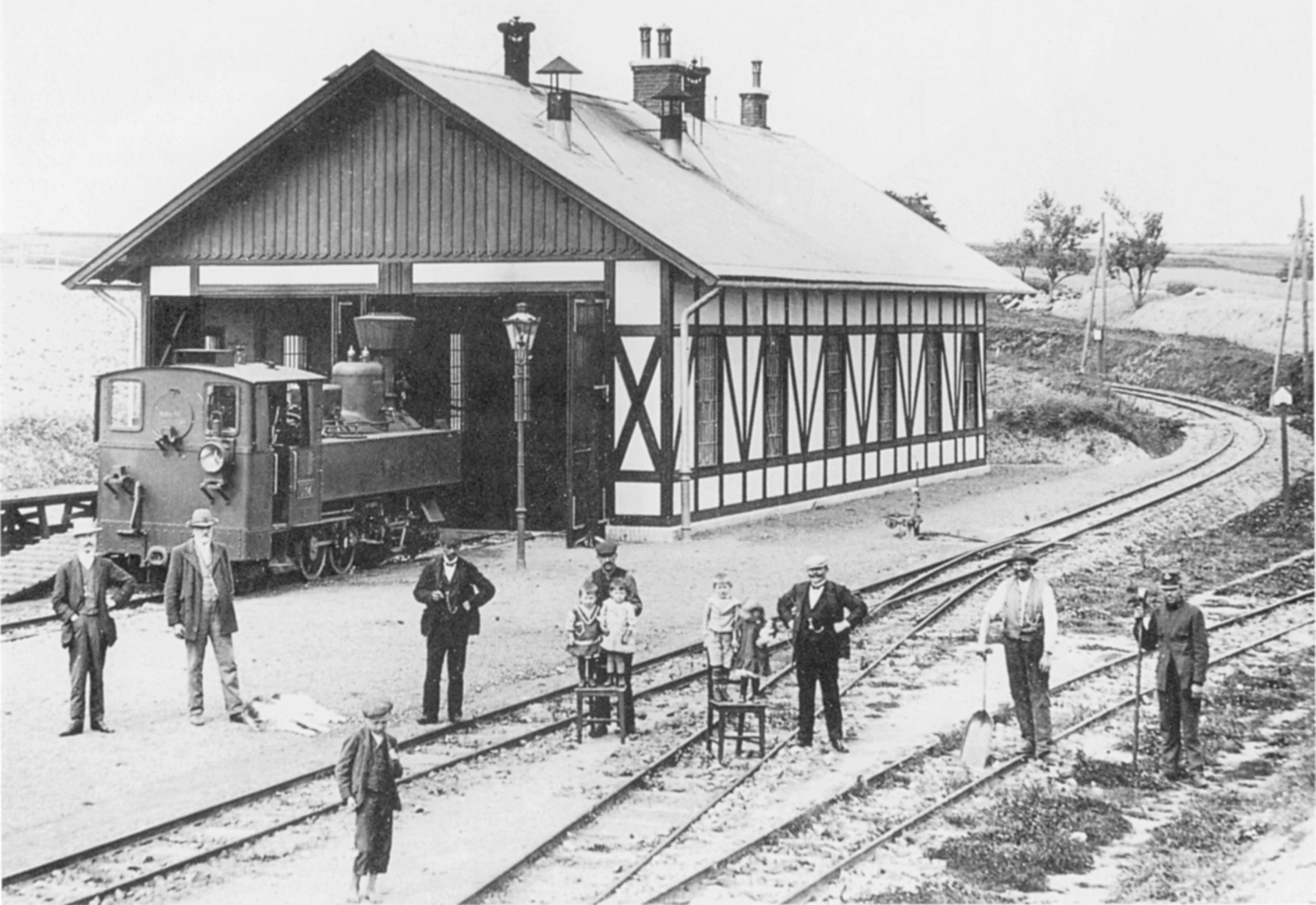 Locomotive shed of Kamenitz (today Kamenice nad Lipou) railway station in southern Bohemia. Railway employees are posing with their children and steam locomotive U 34 (later ČSD U 37.005), in 1910.